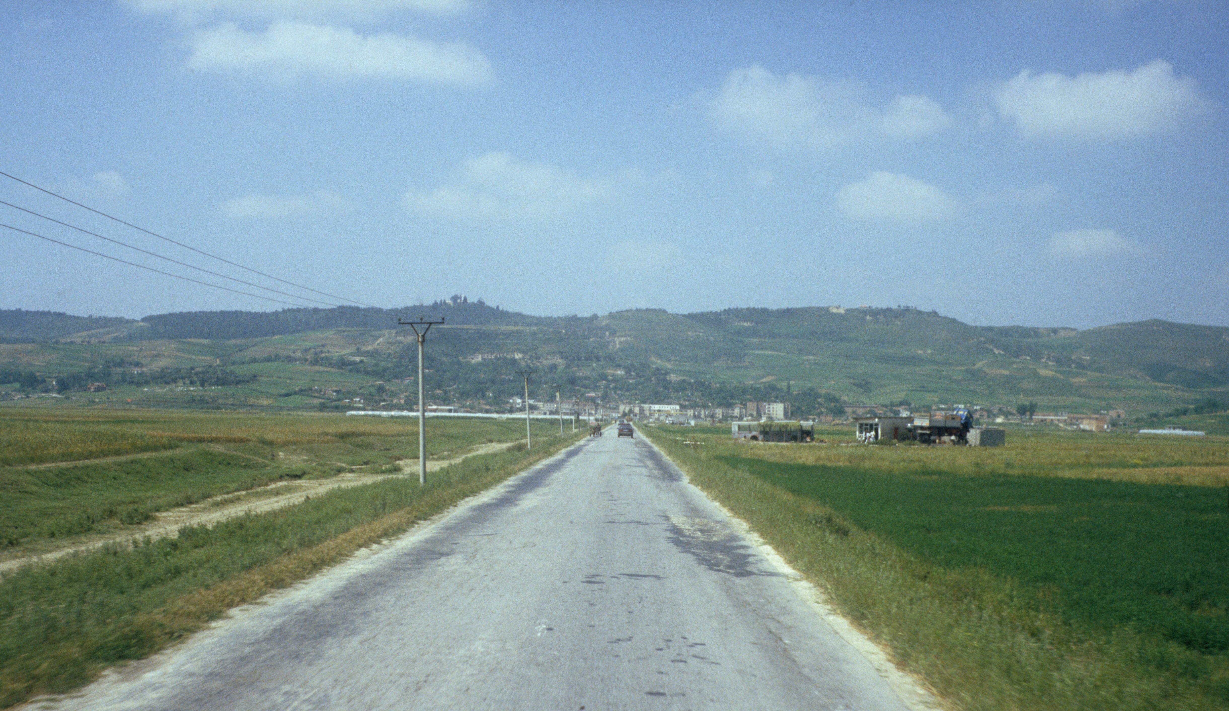 Main road near Kolonjë (between Lushnjë and Fier) in Albania.